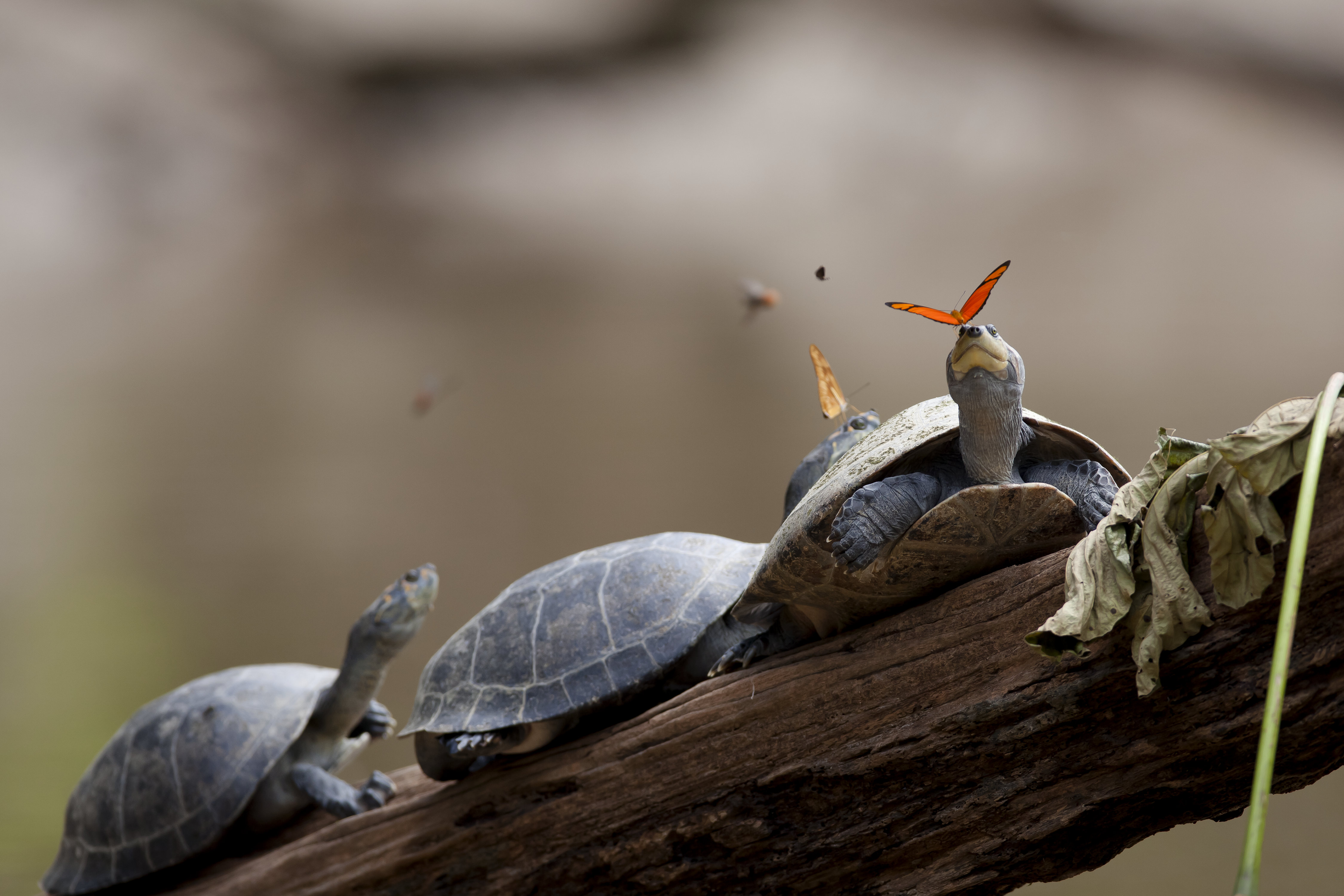 Two Julia Butterflies (Dryas iulia) drinking the tears of turtles (Podocnemis expansa?) in Ecuador. Turtles bask on a log as the butterflies sip from their eyes. This "tear-feeding" is a phenomenon known as lachryphagy.